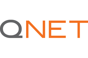 Logo of Qnet company